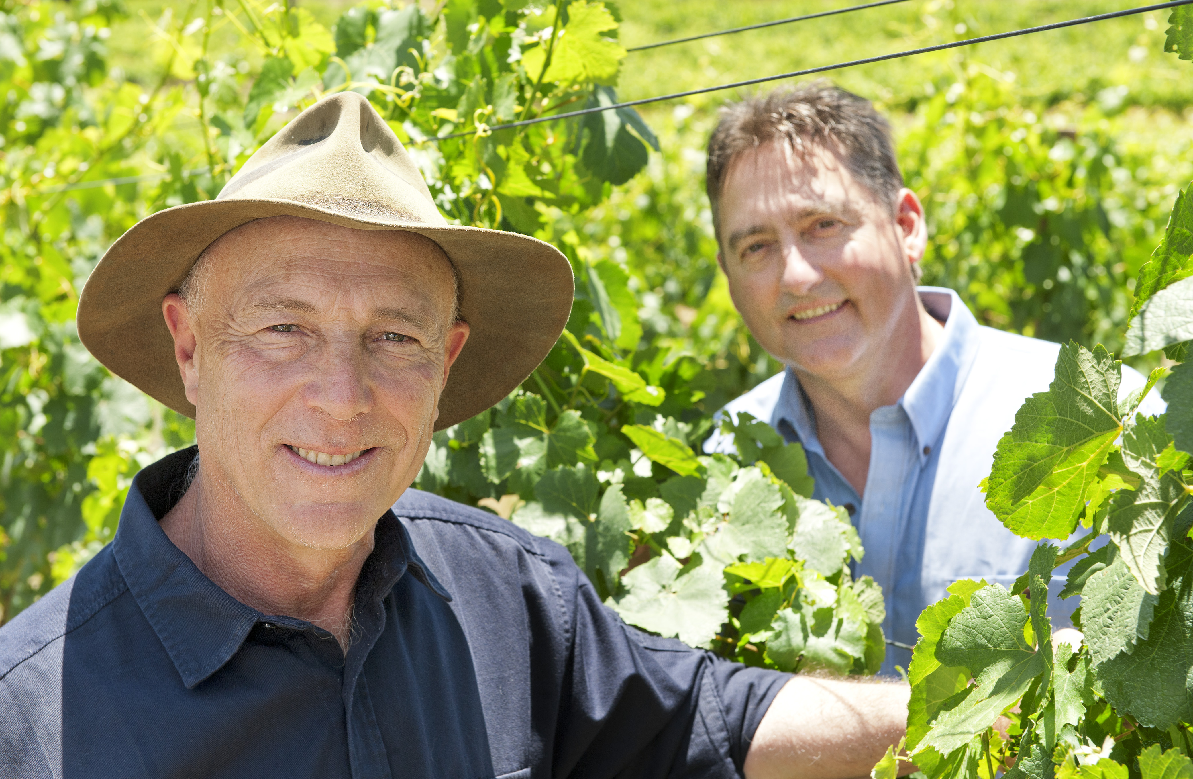 Hahndorf Hill Winery owners Larry Jacobs and Marc Dobson in their Gruner Veltliner vineyard.